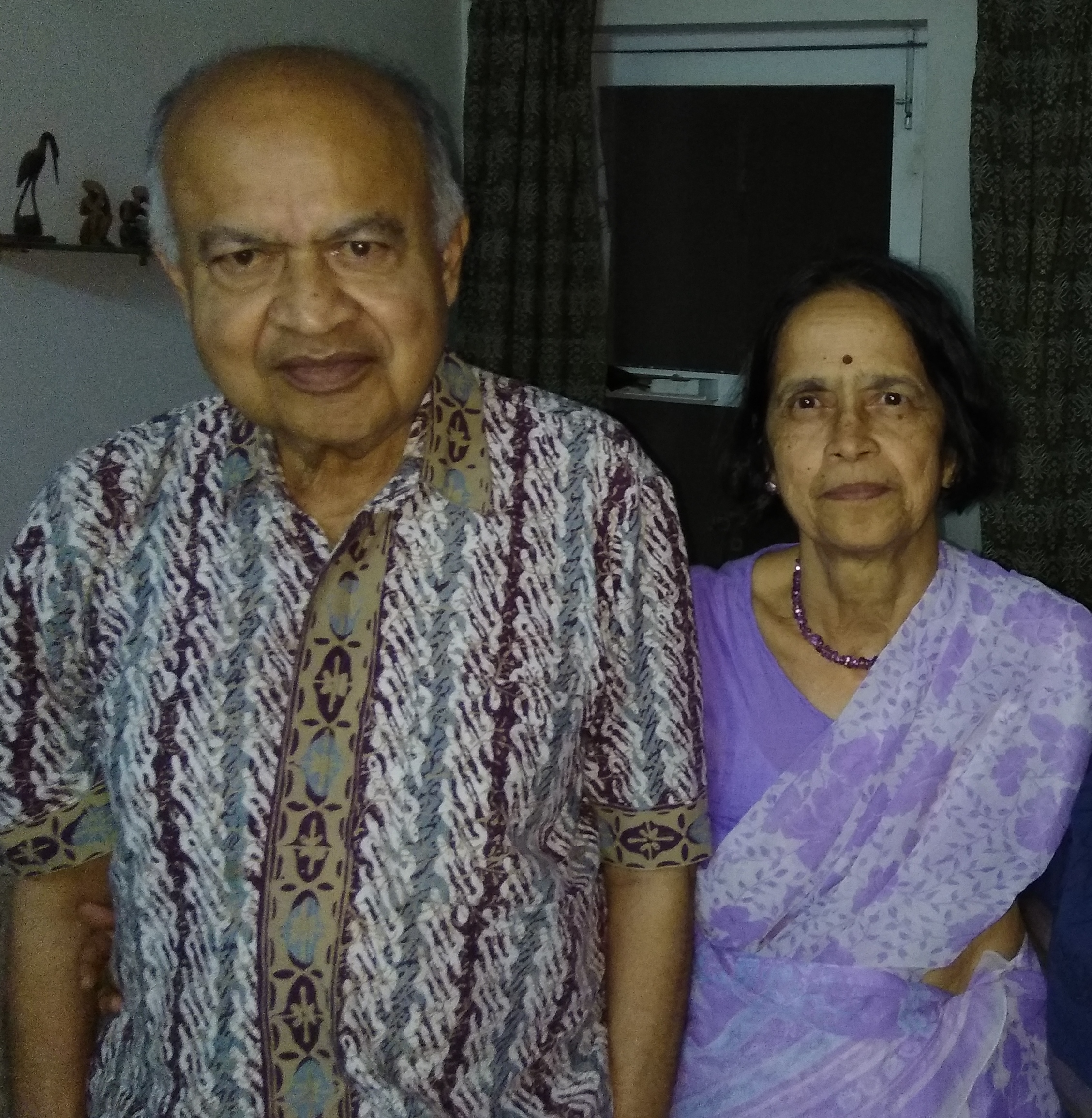 Dr.Jayant and Dr.Mangala Naralikar